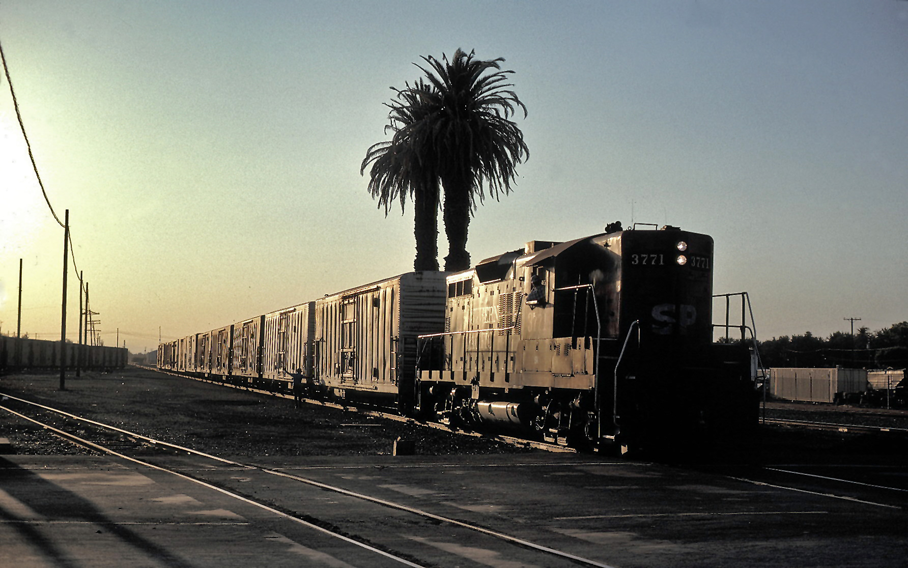 Switching in Los Banos, August 1991 The track still went thru to Firebaugh at the time, but has since been removed as well as this section, cut back to Volta and operated by the California Northern